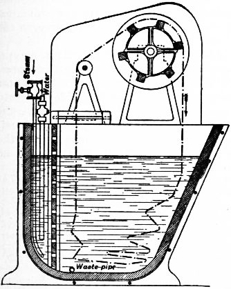 Dye-vat for Piece Goods.